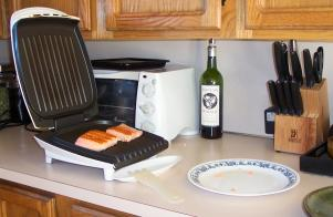 A typical 'George Foreman Grill' in action. I'm pretty sure that's Copper River Salmon on the grill. Photo by Popebrak released under GFDL.